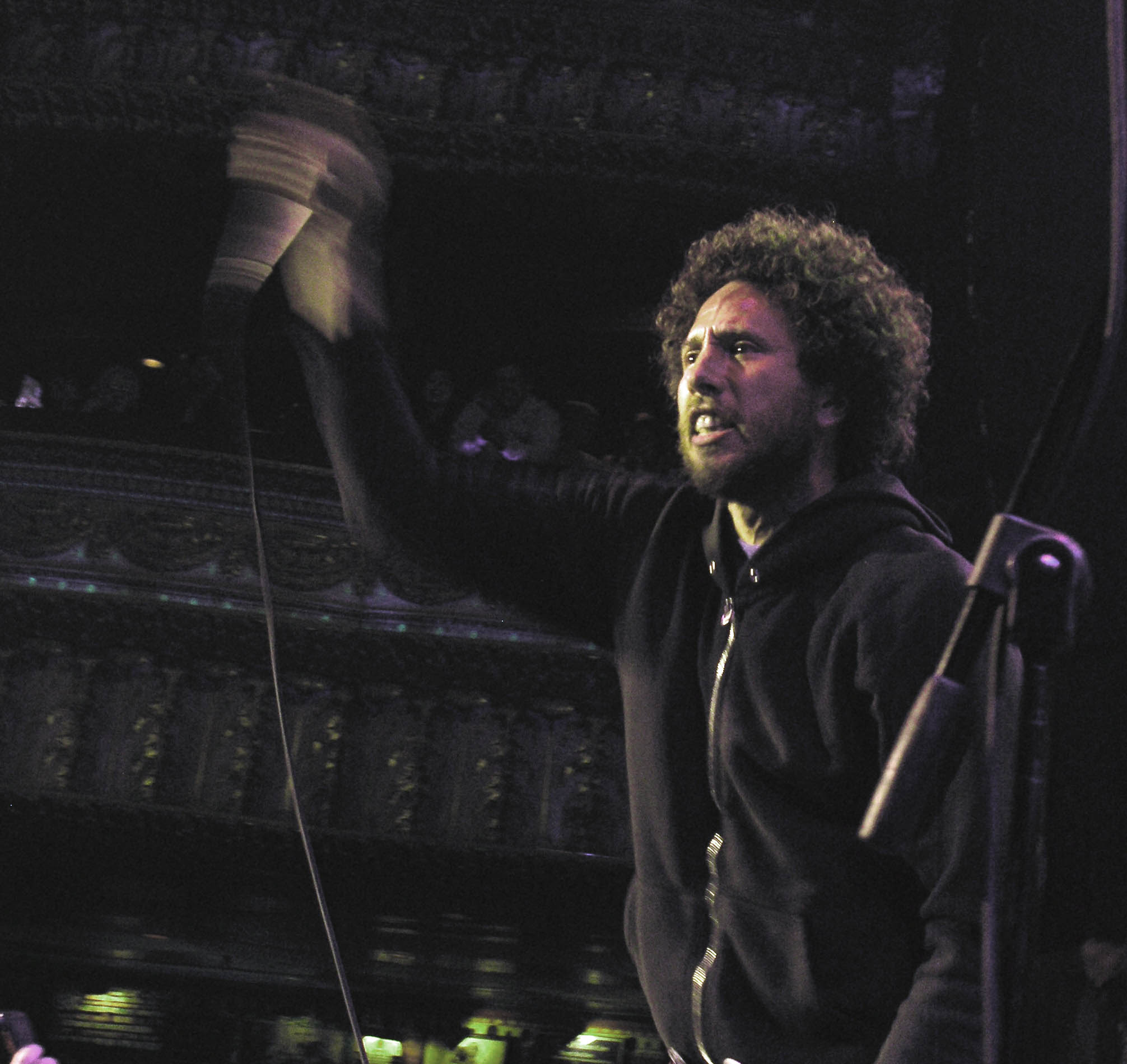 Zack de la Rocha performing with Rage Against The Machine on April 17, 2007.Go At it Now!